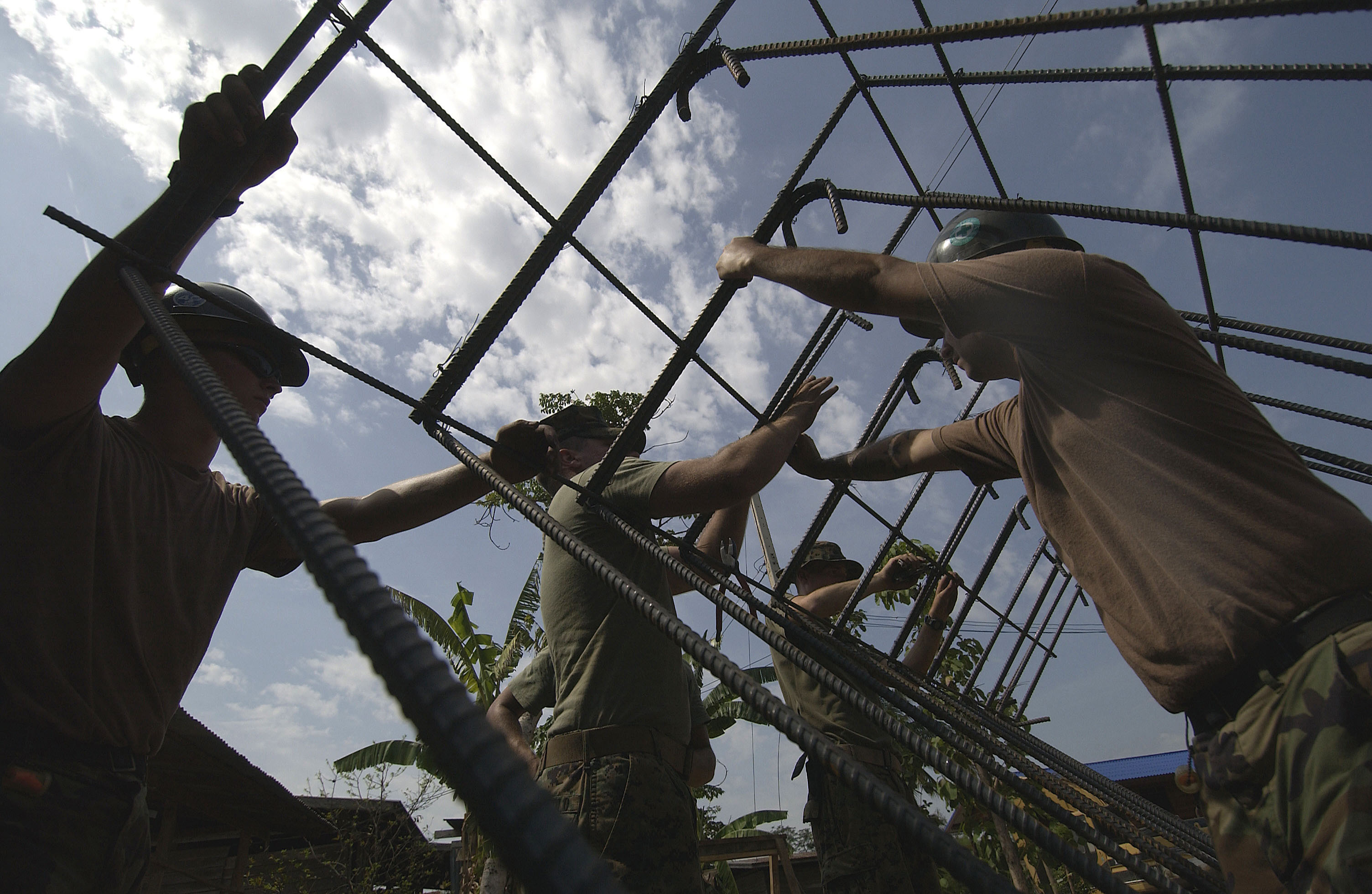 U.S. Marine Corps Engineers and U.S. Navy Seabees work alongside members of the Thai Army to raise a framework of rebar as they build a bridge in Ban Jingteenuean, Thailand, during Exercise Cobra Gold 05 on April 17, 2005. Marines from the 9th Engineer Support Battalion of Camp Hansen on Okinawa, Japan, and Seabees from Naval Construction Battalion 40, Port Hueneme Calif., are deployed to Thailand for the joint-combined exercise.